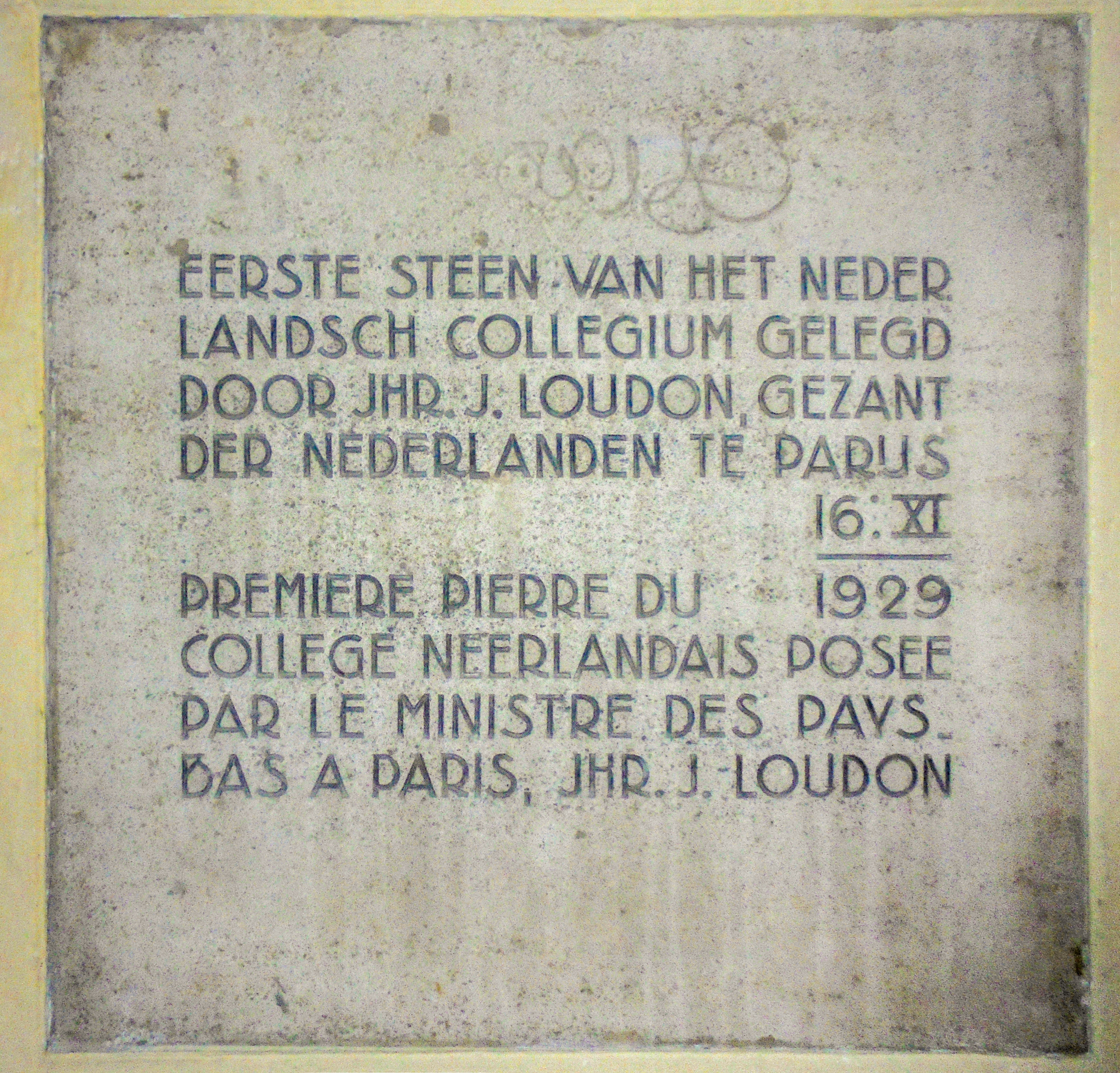 The foundation stone laid at the groundbreaking ceremony of the College Neerlandais in Paris on 16 November 1929.